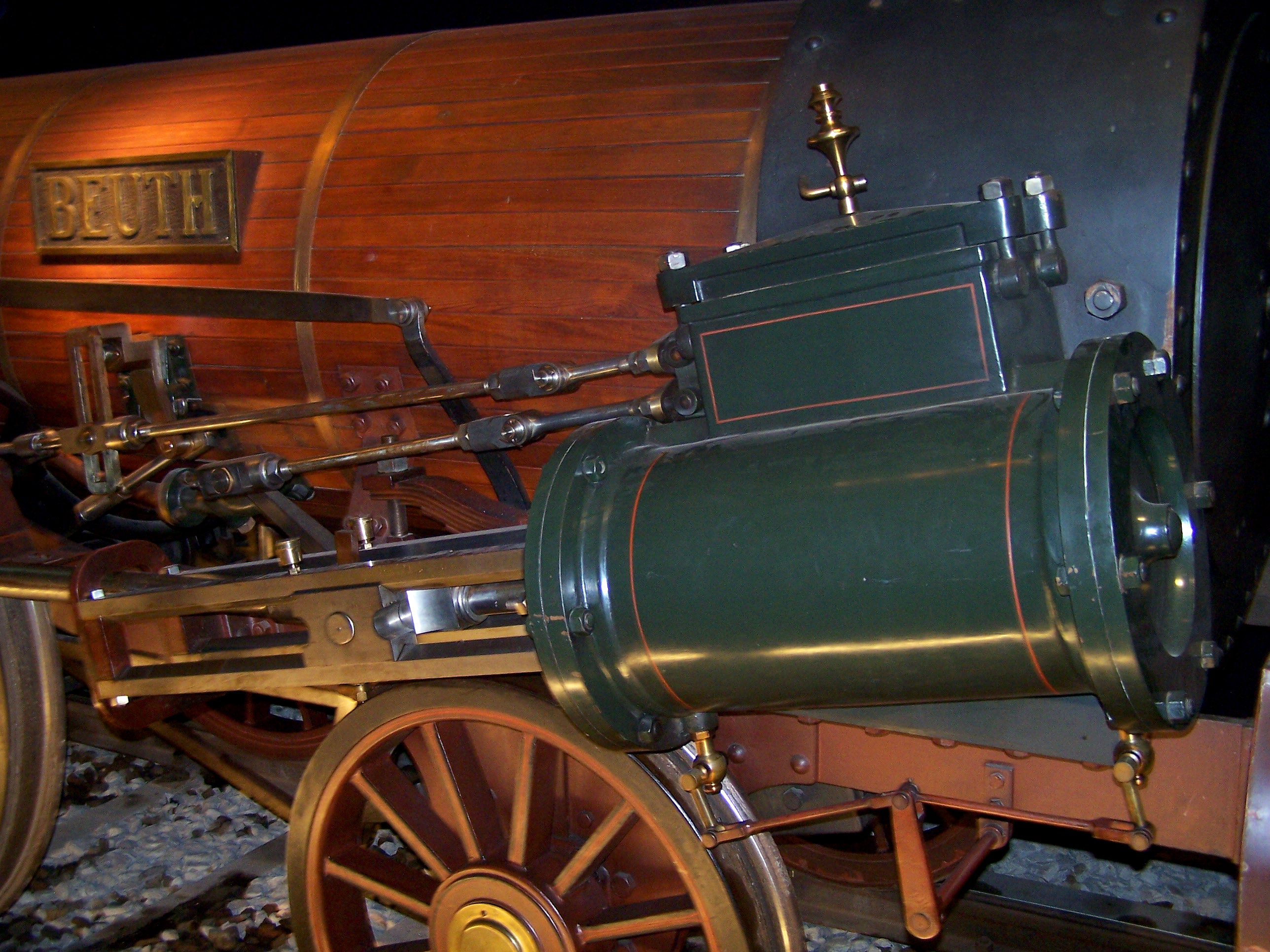 Cylinder of the Replication from 1912 of the historic steam locomotive Beuth from 1844 by August Borsig in the Transport Museum in Nuremberg in the exhibition "Adler, Rocket and Co."